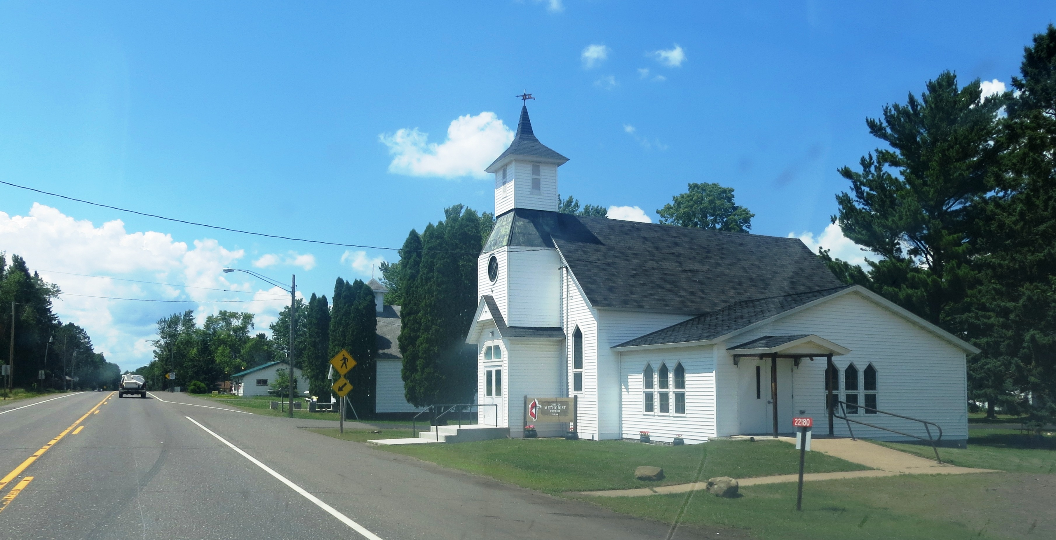 Photo from Bayfield county, in northern Wisconsin. This is the Grand Wiev township